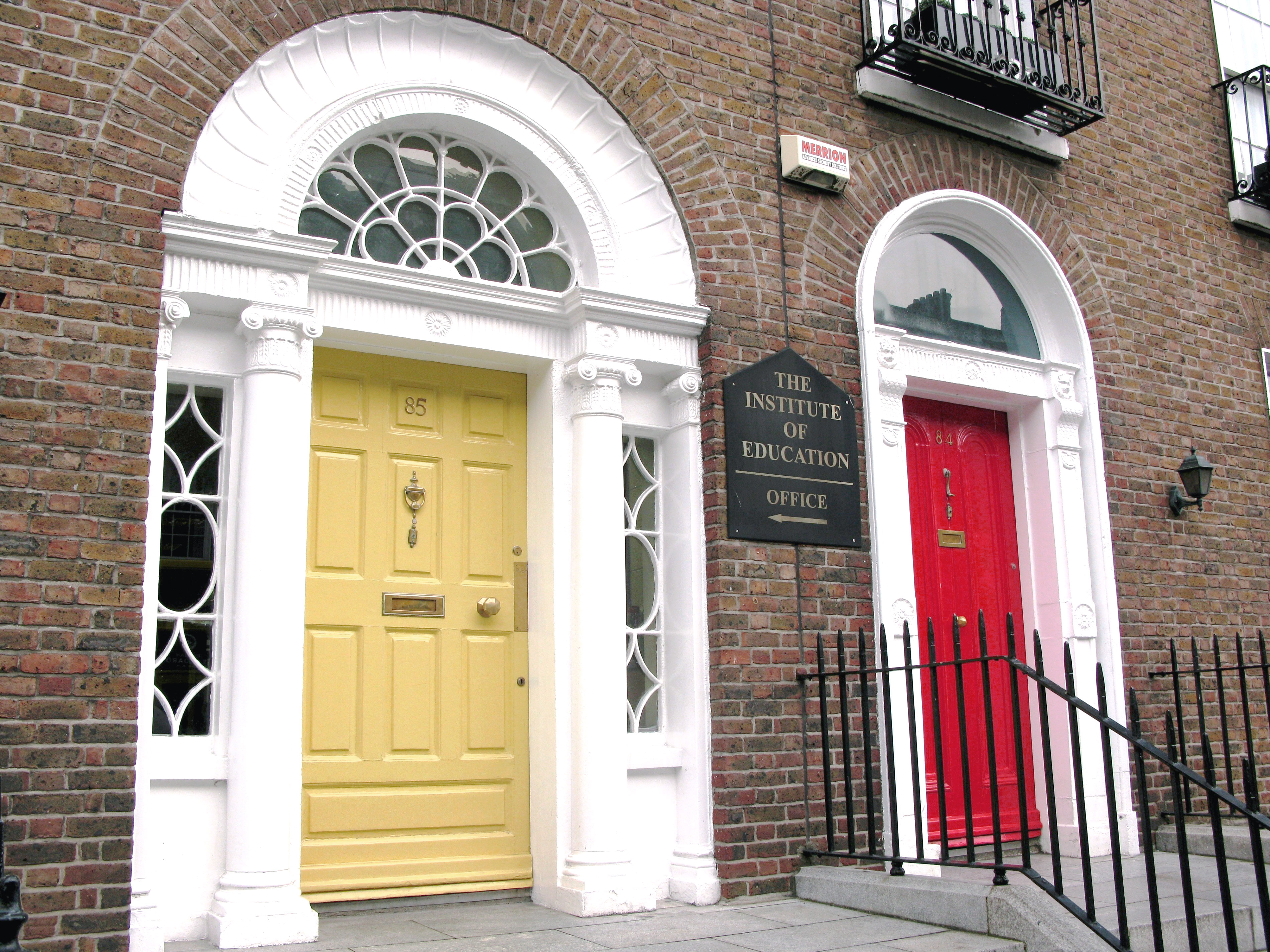 Image of the doors of The Institute of Education